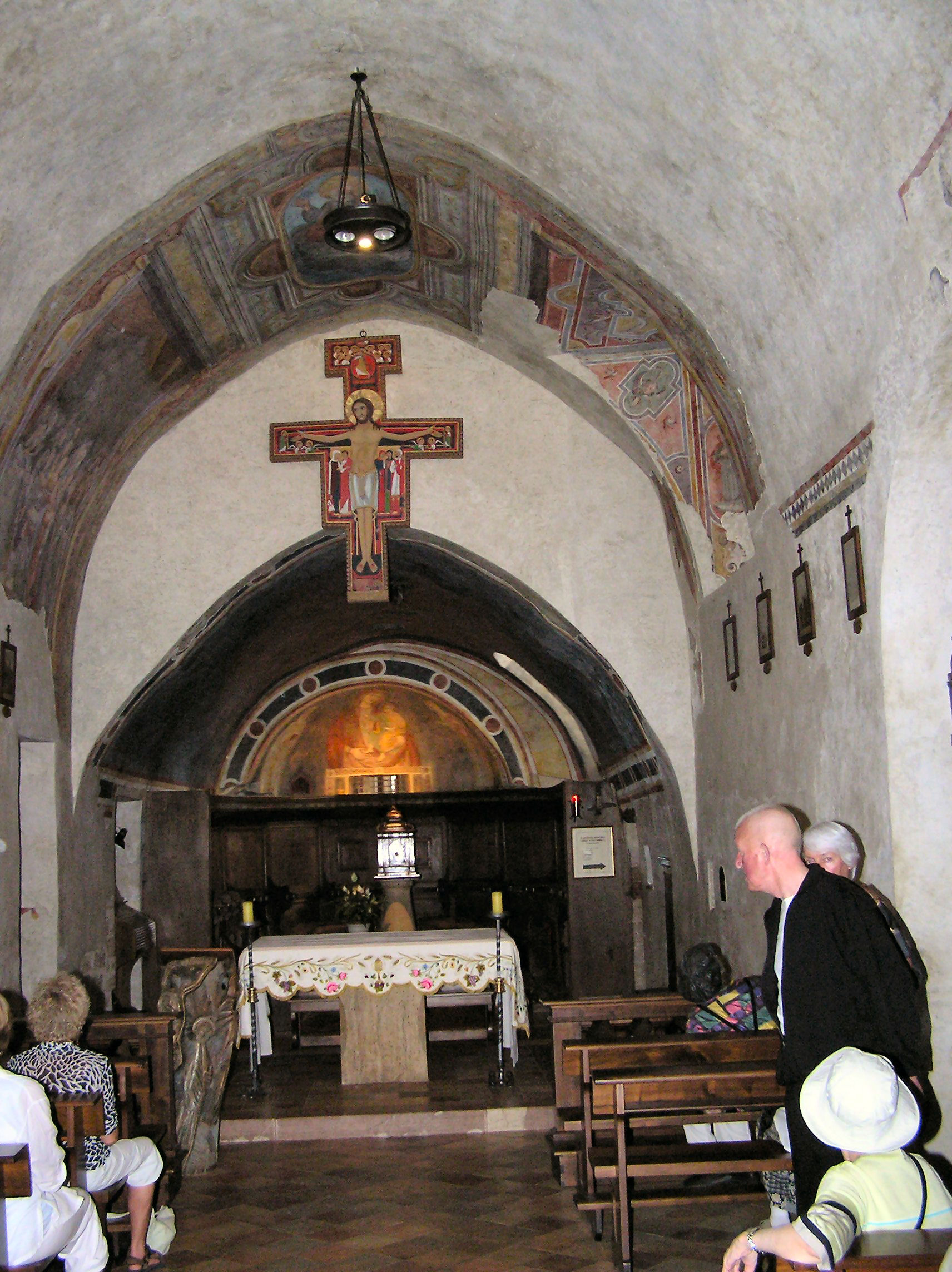 San Damiano Church,Assisi, Interior